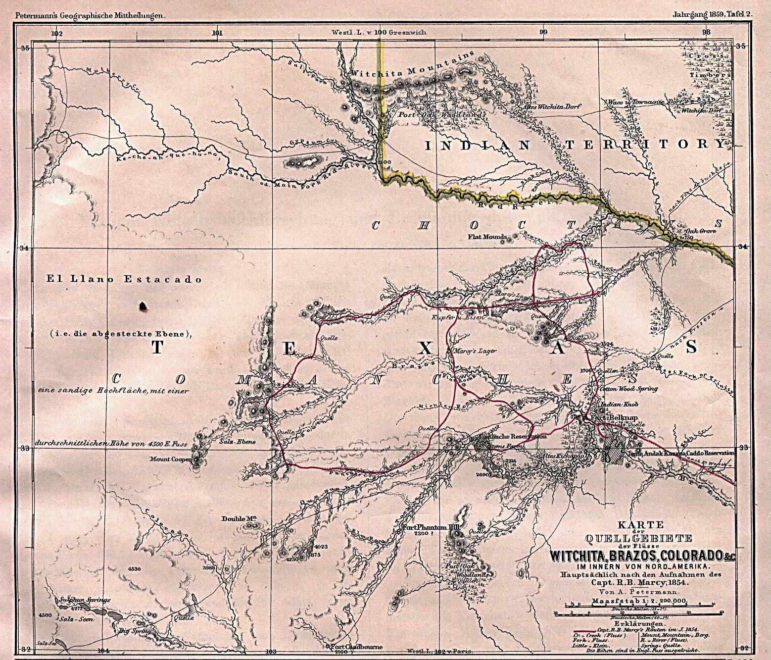 1895 Petermann's Mittheilungen map of Captain Marcy's route though Texas in 1854.